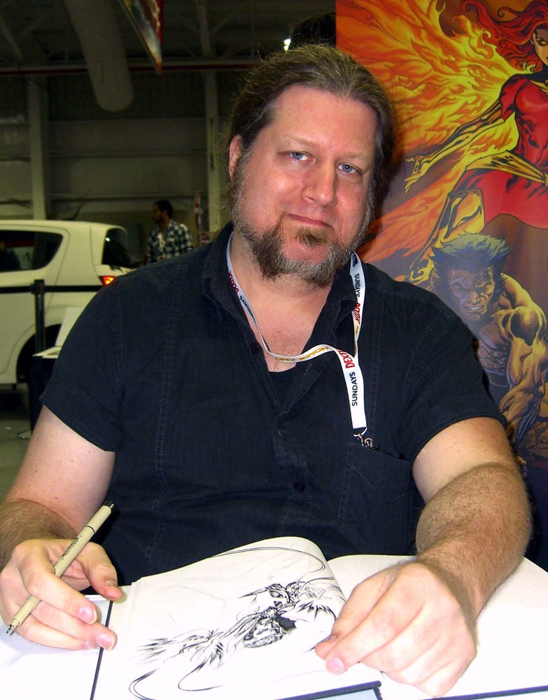 Comics creator Tom Raney on Day 2 of the 2012 New York Comic Con, Friday October 12, 2012 at the Jacob K. Javits Convention Center in Manhattan. This photo was created by Luigi Novi. It is not in the public domain, and use of this file outside of the licensing terms is a copyright violation.